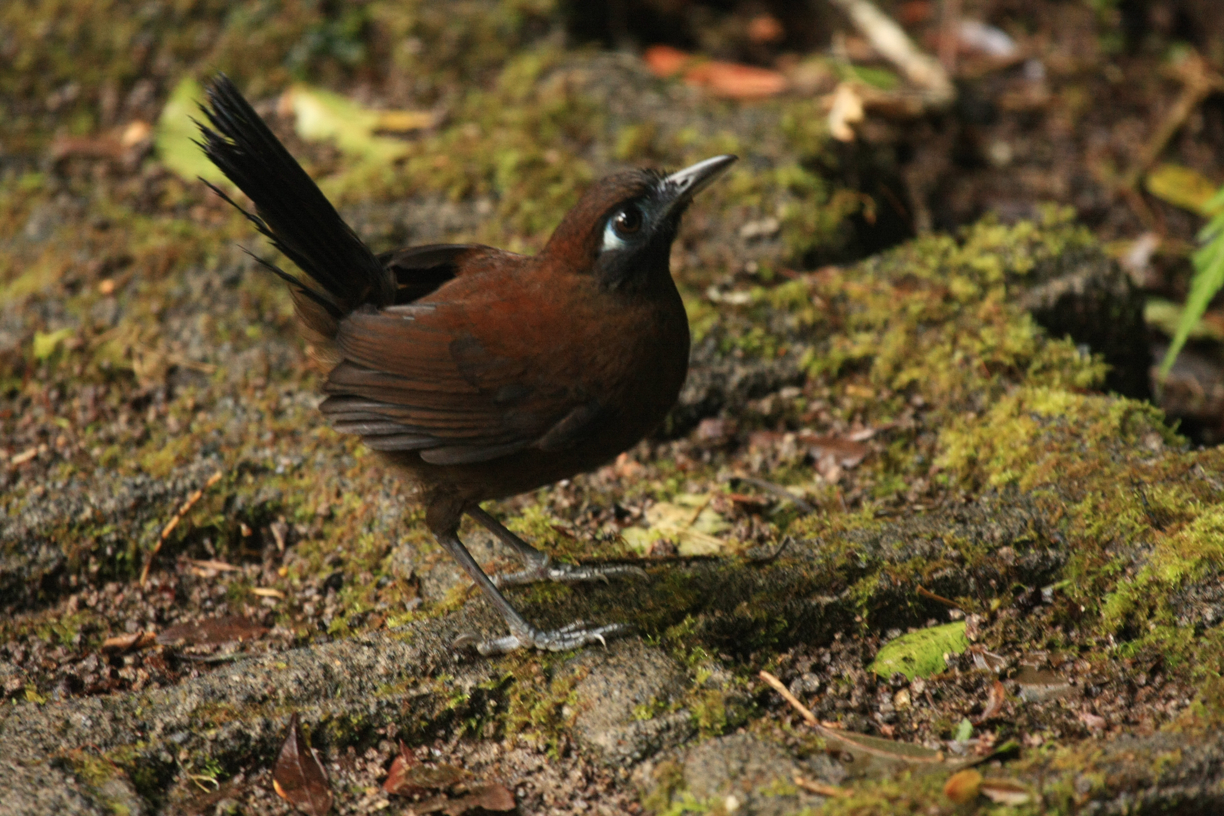 A female Immaculate Antbird in Costa Rica.